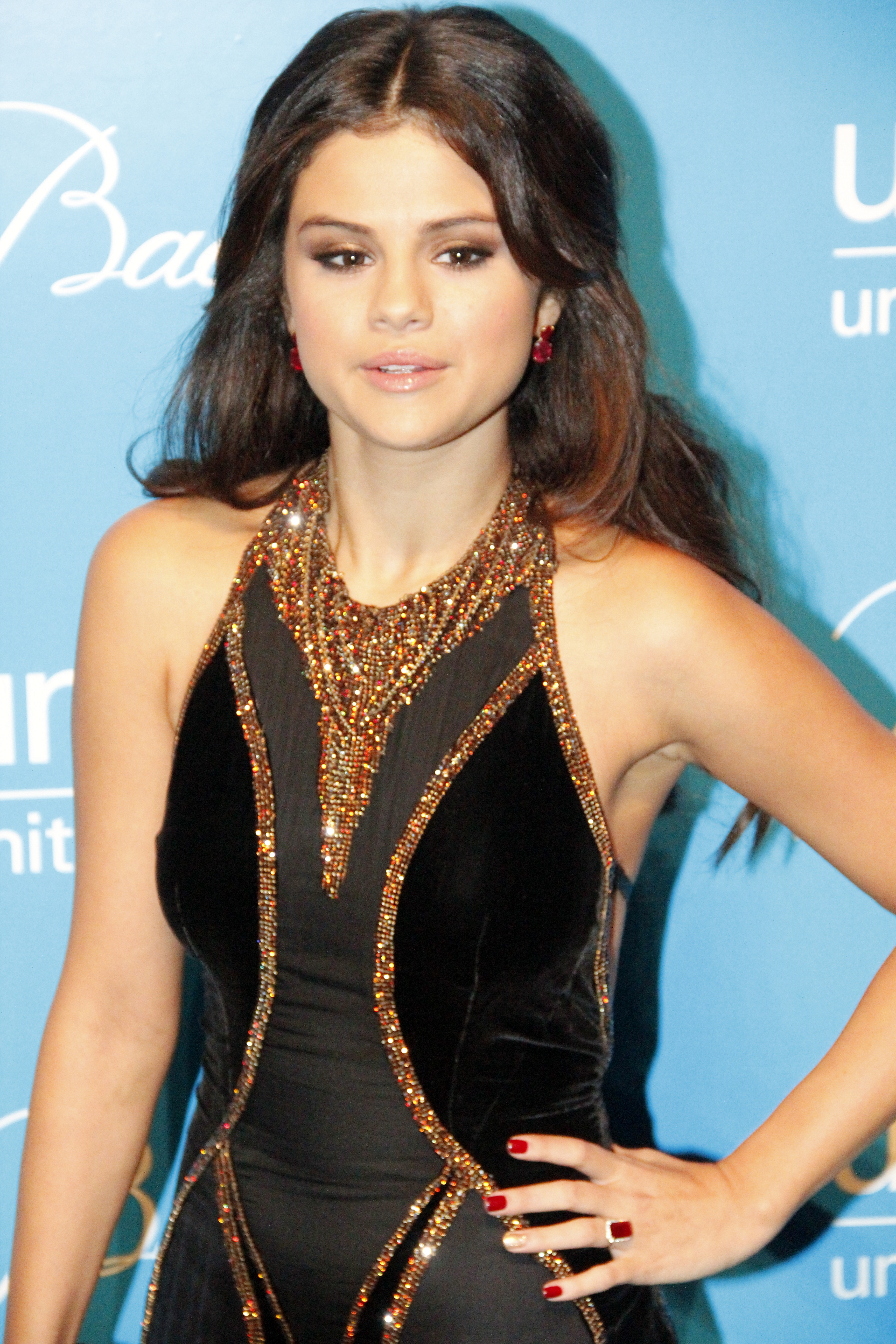 Selena Gomez at the UNICEF Snowflake Ball 2012 in New York City.